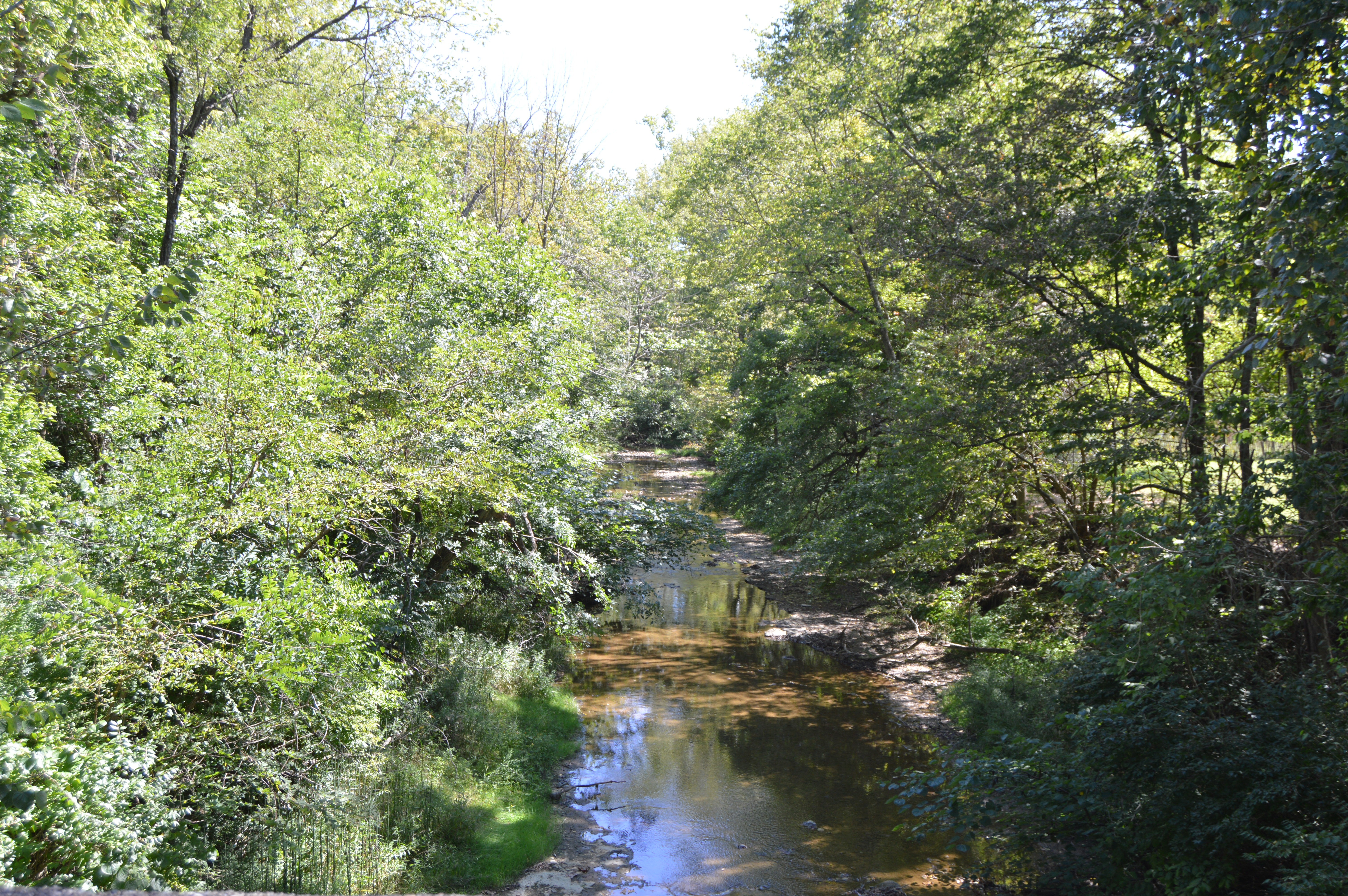 Looking southeast (downstream) along Paint Creek from the Dillman Road bridge, northwest of Camden in Somers Township, Preble County, Ohio, United States.